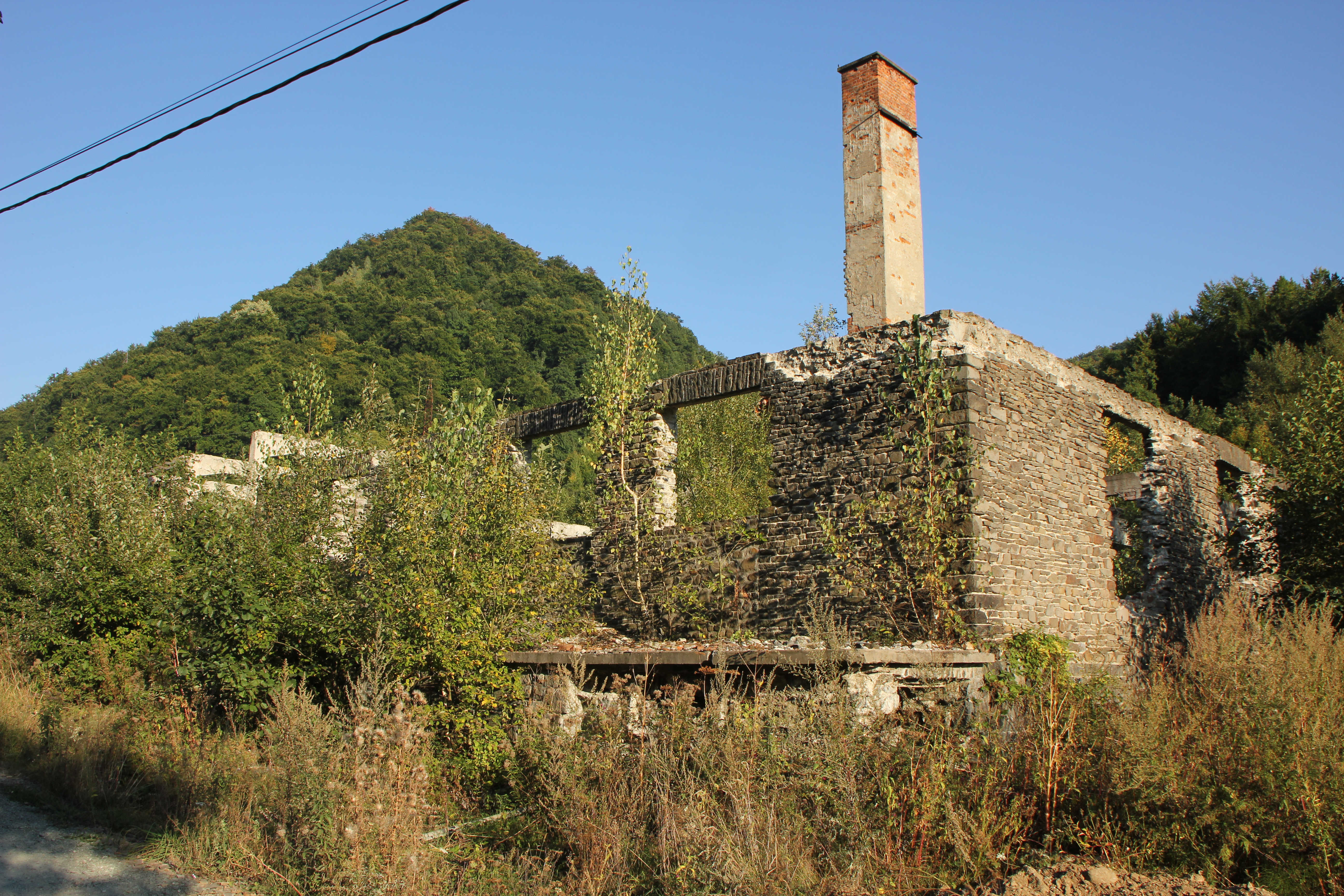 Miners housing assembly in Baia Sprie city, Coșbuc George street no 9, 11, 13, 15, sec. XIX